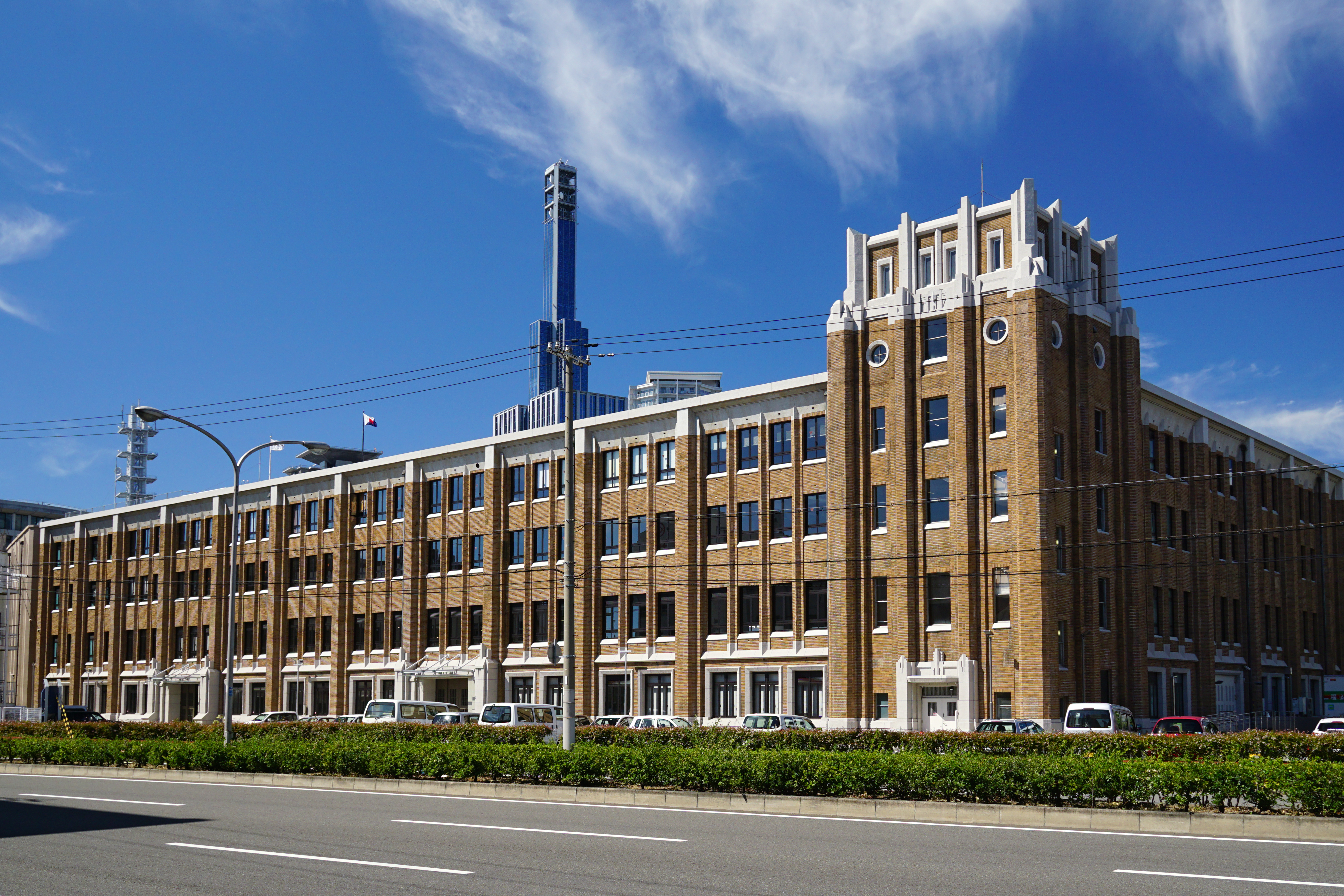 Former National Raw Silk Conditioning Houses in Kobe Hyogo prefecture, Japan.